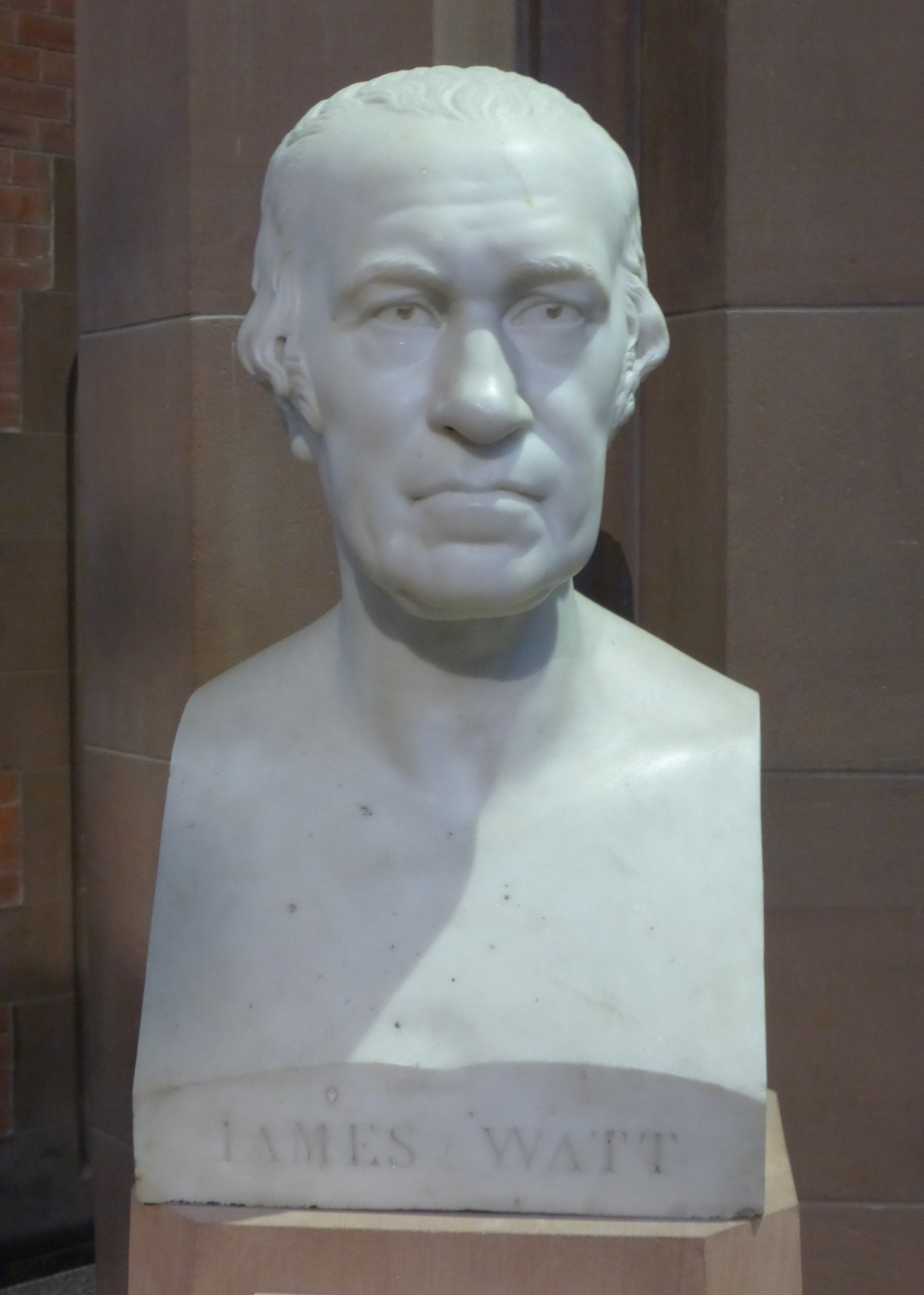 Bust of James Watt by Sir Francis Legatt Chantrey in the Scottish National Portrait Gallery